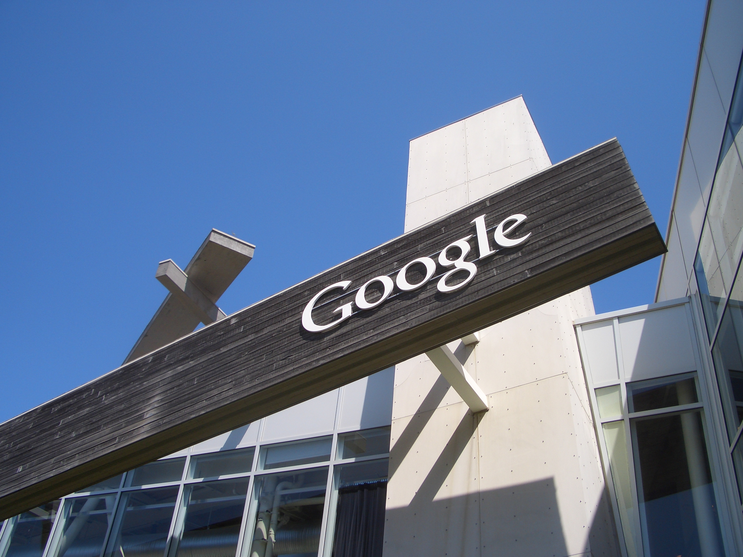 A Google sign from their campus in Mountain View, California.